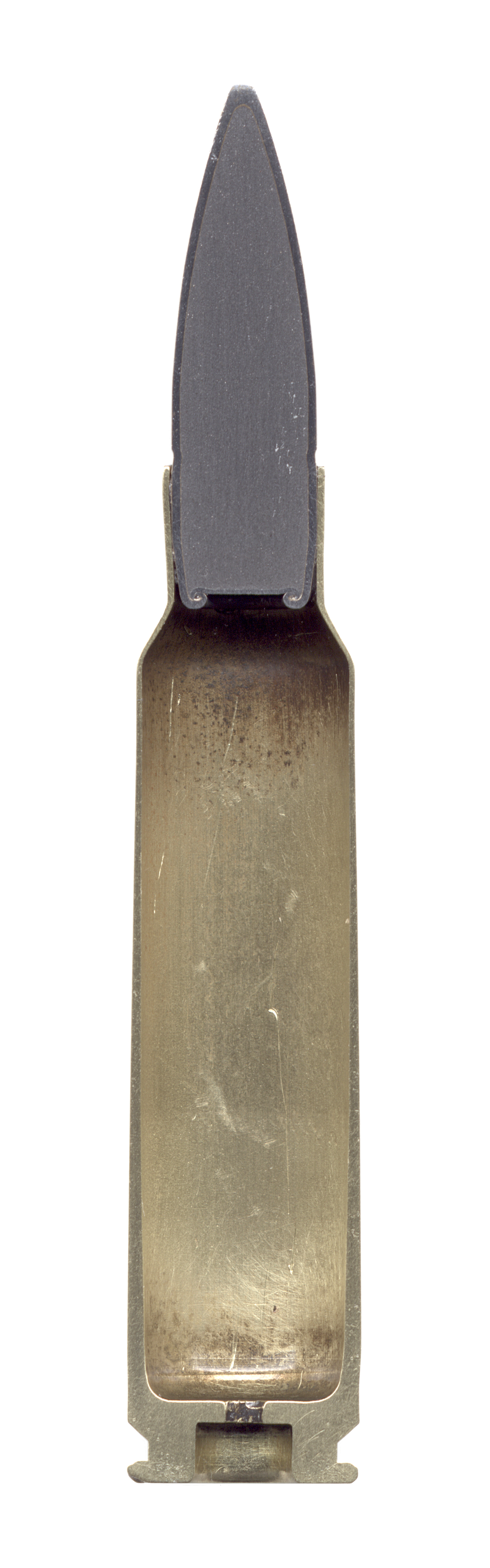 Cutaway diagram of a 7.5x55 Swiss cartridge